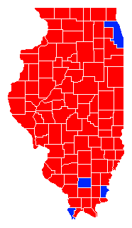 Results by county in the 1998 election for Attorney General of Illinois